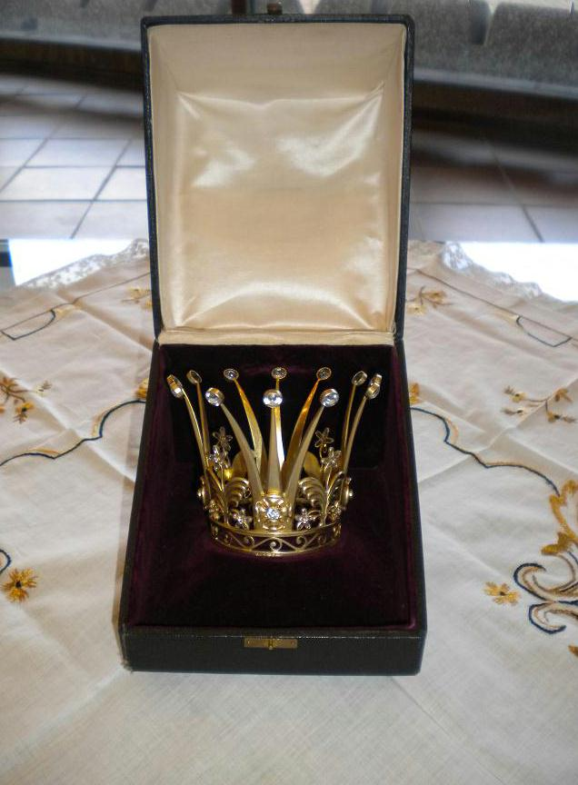 Gilded silver bridal crown by Swedish master goldsmith Bo Stefan (1912-2011) Place: Church of Sweden, Täby, Sweden